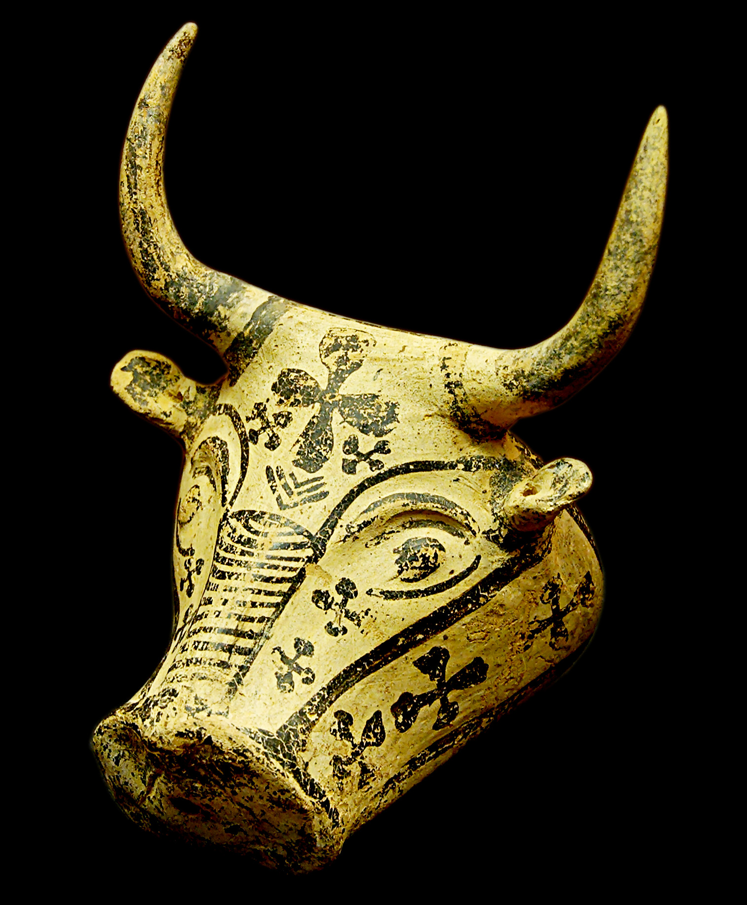 Mycenaean rhyton in the shape of a bull's head, 1300–1200 BCE (Late Helladic IIIb). Found in a tomb on Karpathos. The original photo was taken by user:Marie-Lan Nguyen own work 2006 This version of the image has changed the background to solid black.